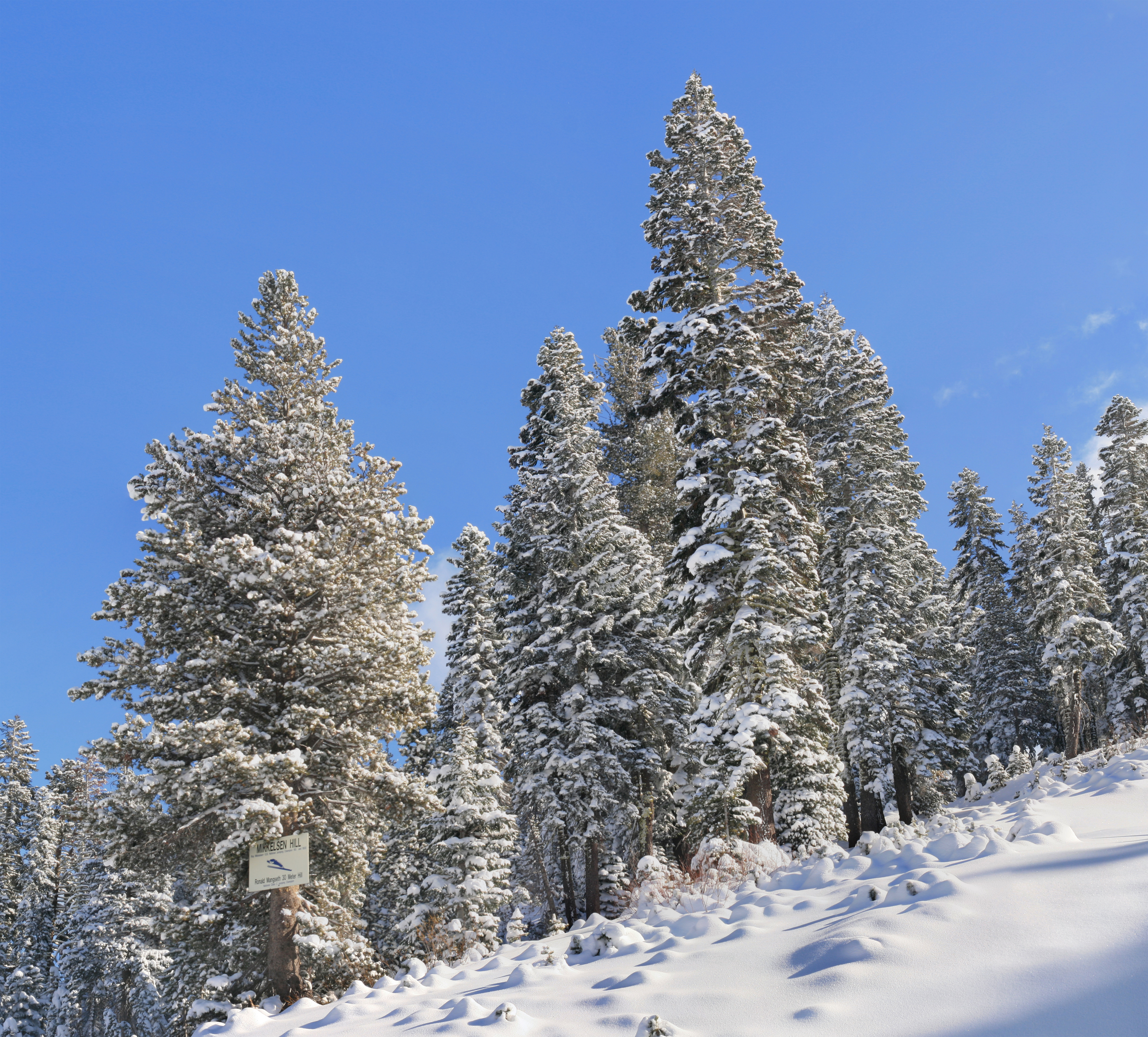 Snowy forest in Boreal, near Lake Tahoe, in the Sierra Nevada of California.